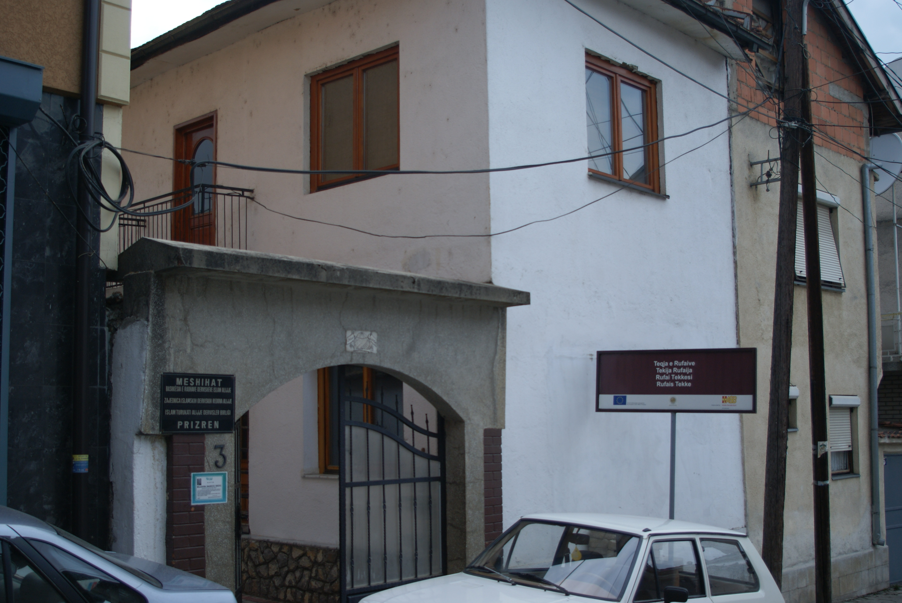 Teqja 1